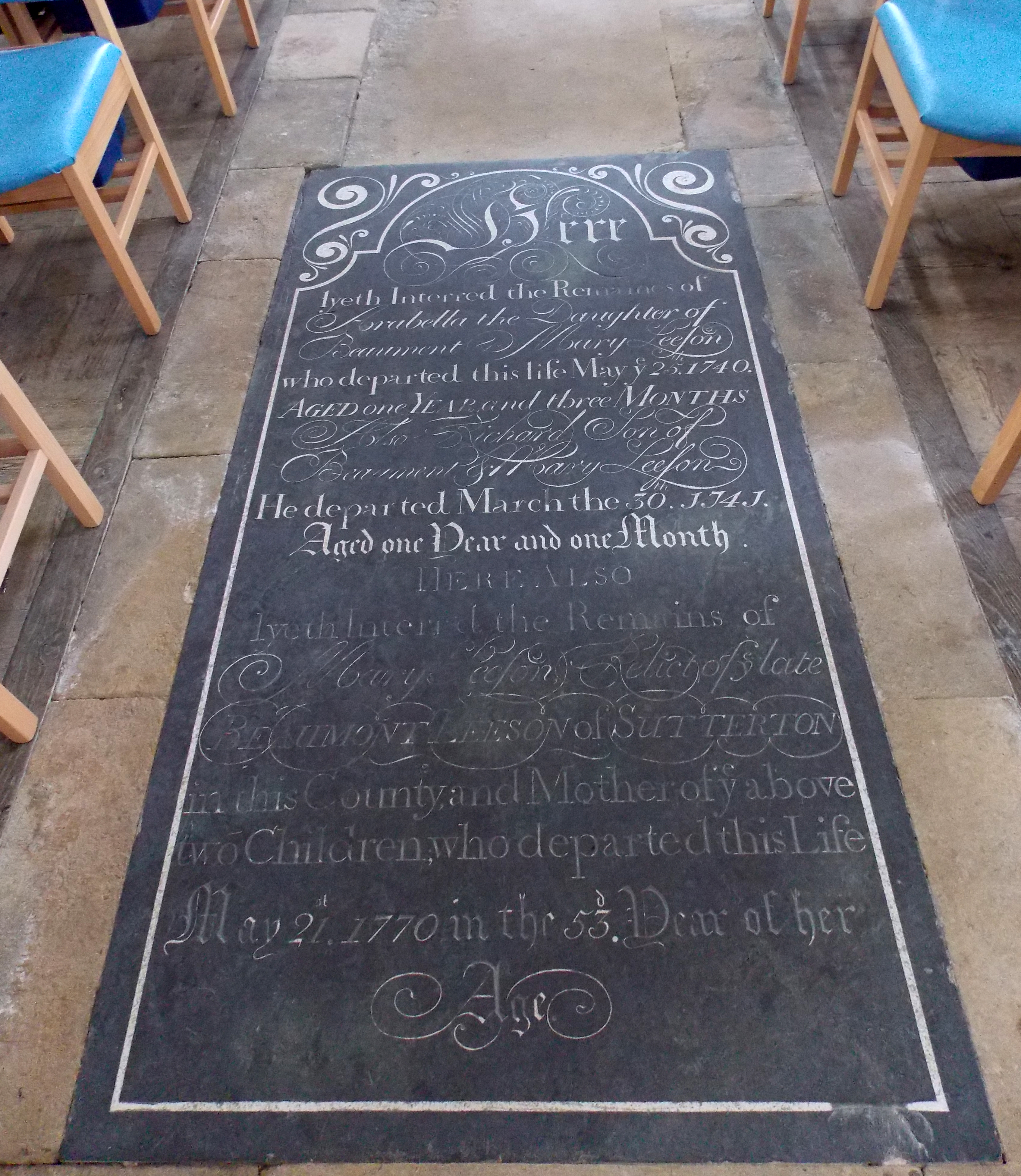 Harlaxton St Mary and St Peter's Church – Nave slate grave slab to the Leeson family